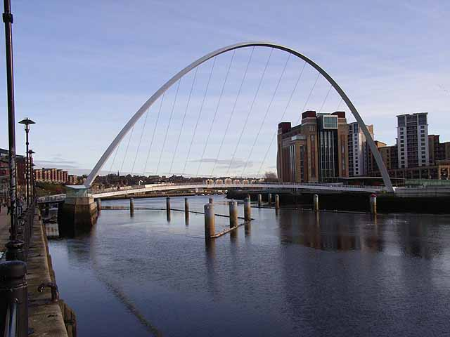 Millennium Bridge, Newcastle to Gateshead This elegant tilting pedestrian and cyclist bridge is the lowest above-ground crossing of the River Tyne. It has become something of an icon of Newcastle and Gateshead.